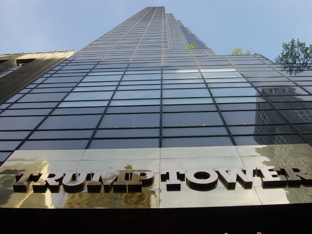 Trump Tower on Fifth Ave in New York City. Picture taken in April 2004.